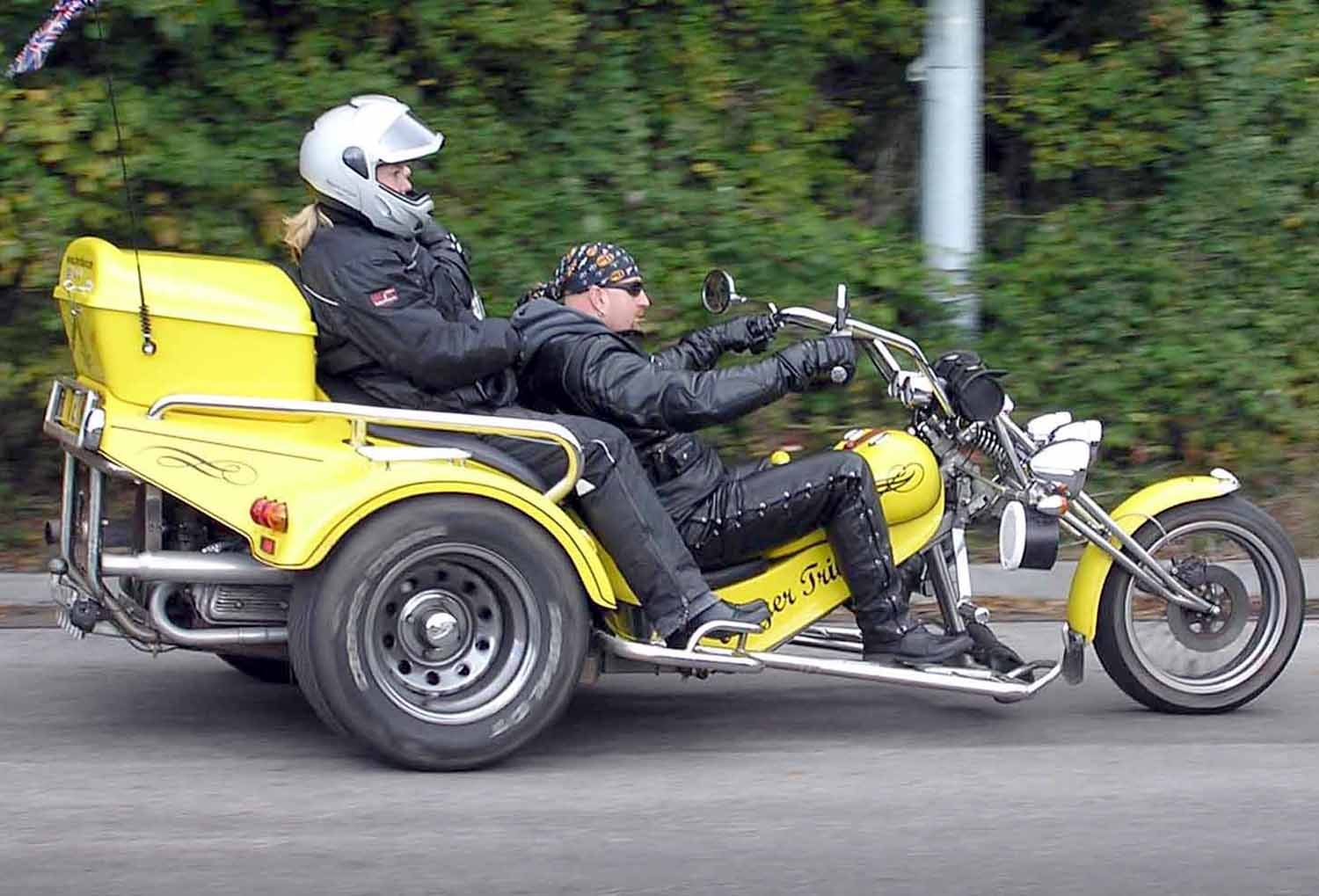 Trike seen at a motorbike rally at Aust Motorway Services, Bristol, England. Taken by Adrian Pingstone in October 2004 and released to the public domain.